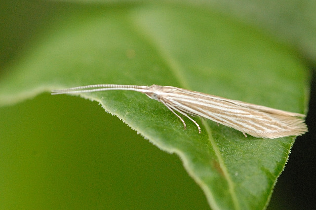 Coleophora trochilella from Commanster, Belgian High Ardennes .